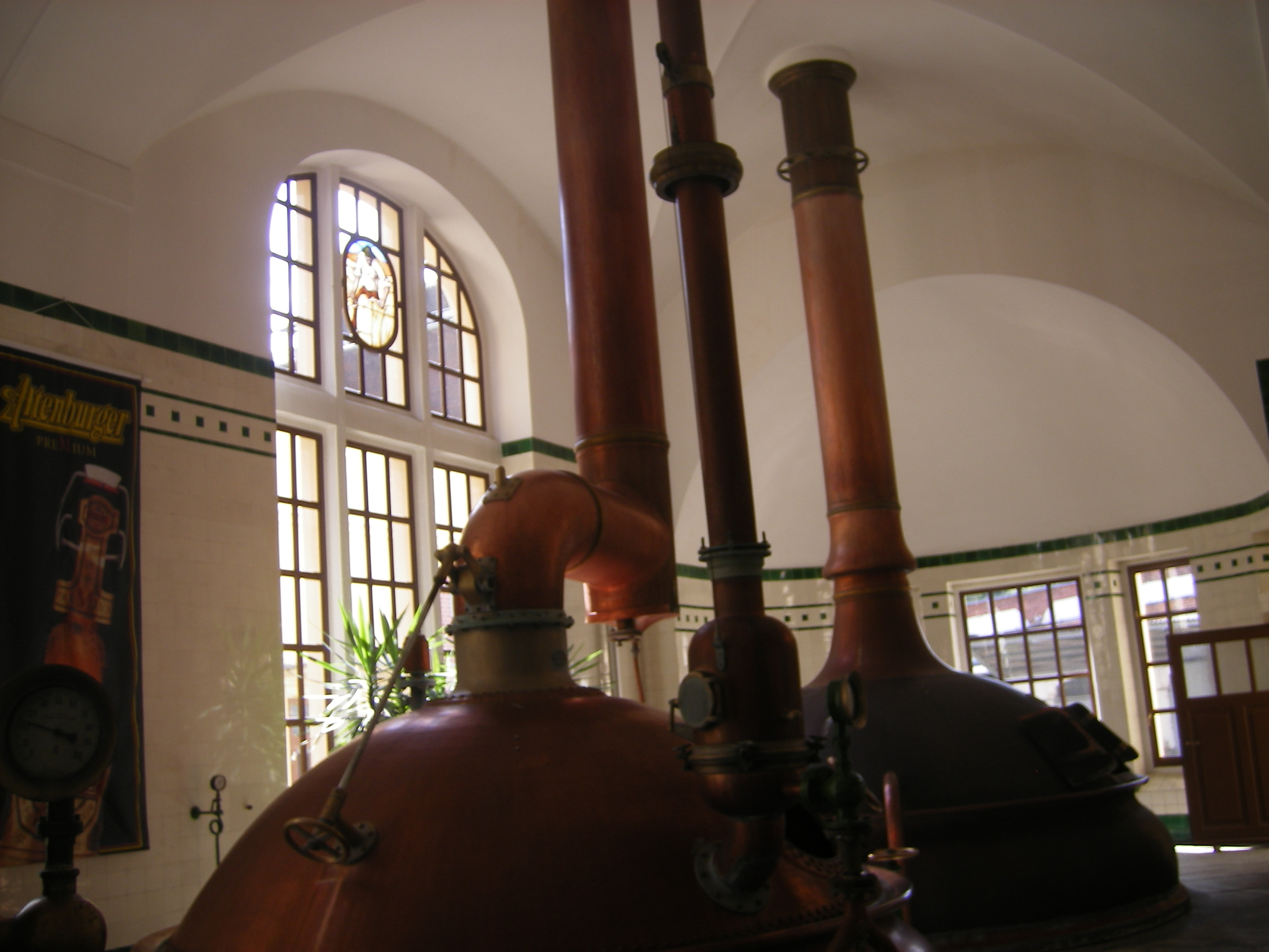 Interior view of brewhouse in Altenburg/Thuringia (Germany)